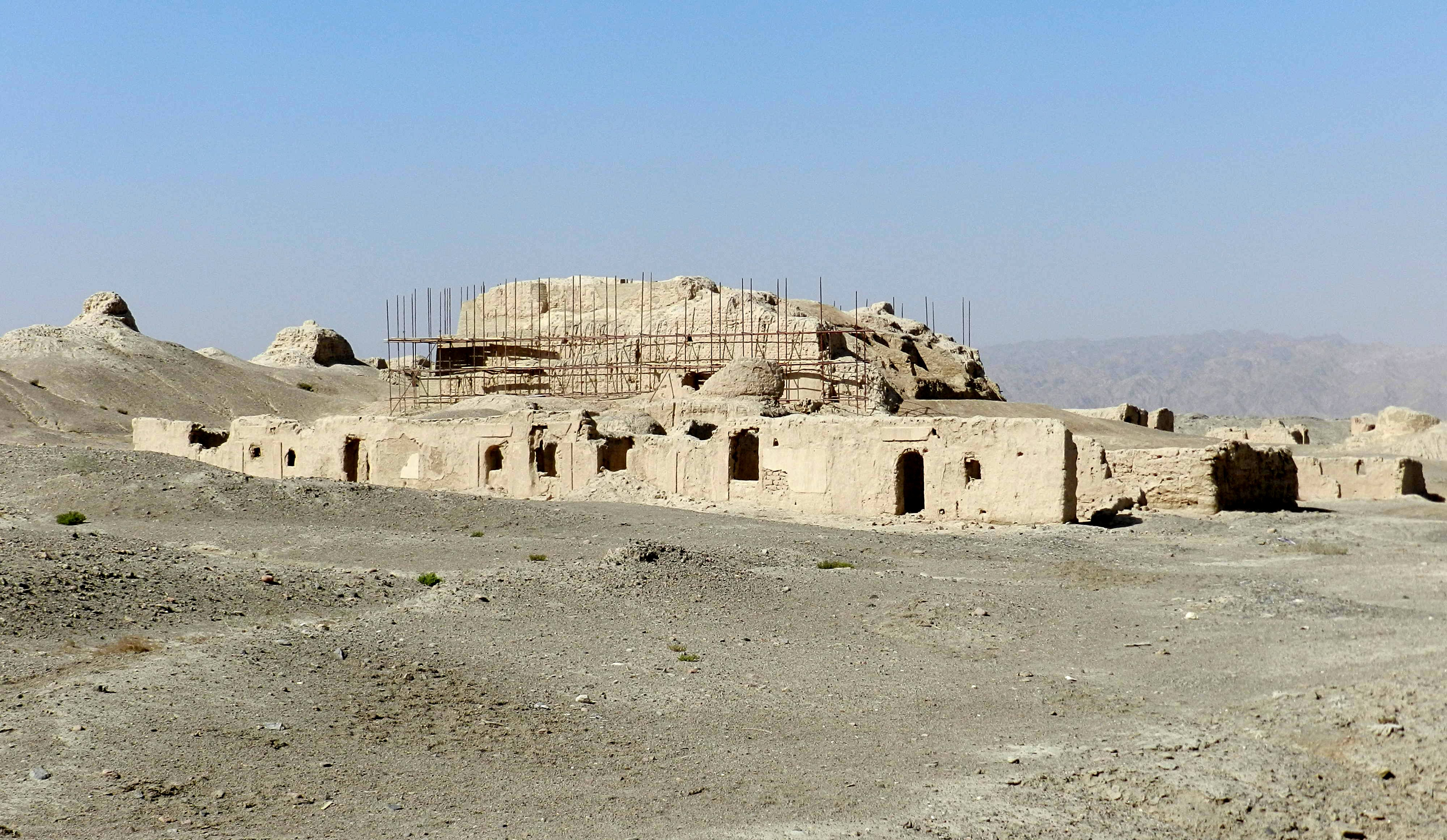 Photograph of the Qigexing Buddhist Temple Ruins, southwest of the town of Yanqi, Yanqi Hui Autonomous County, Xinjiang, China.